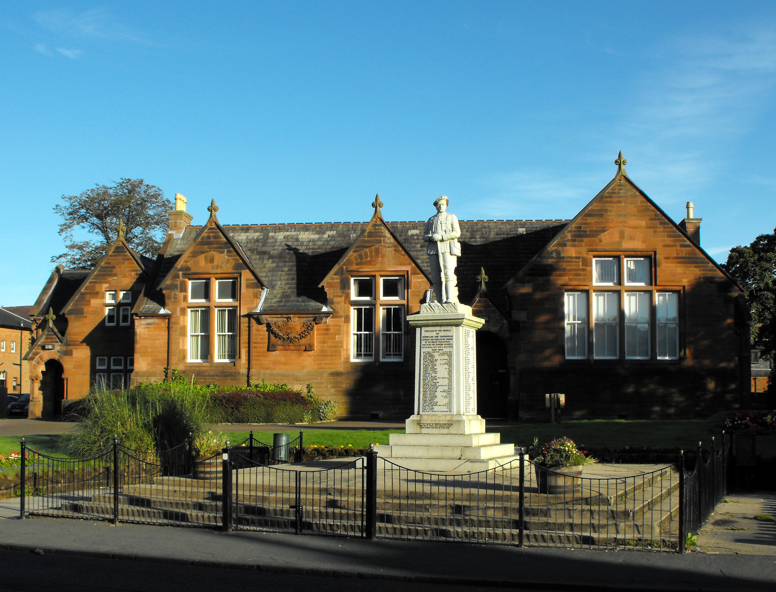 Lady Flora's & war memorial, Main Street, Newmilns.